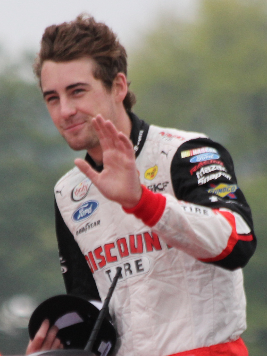 NASCAR driver Ryan Blaney waves to the crowd during drivers introduction at the Xfinity Series race at Road America.